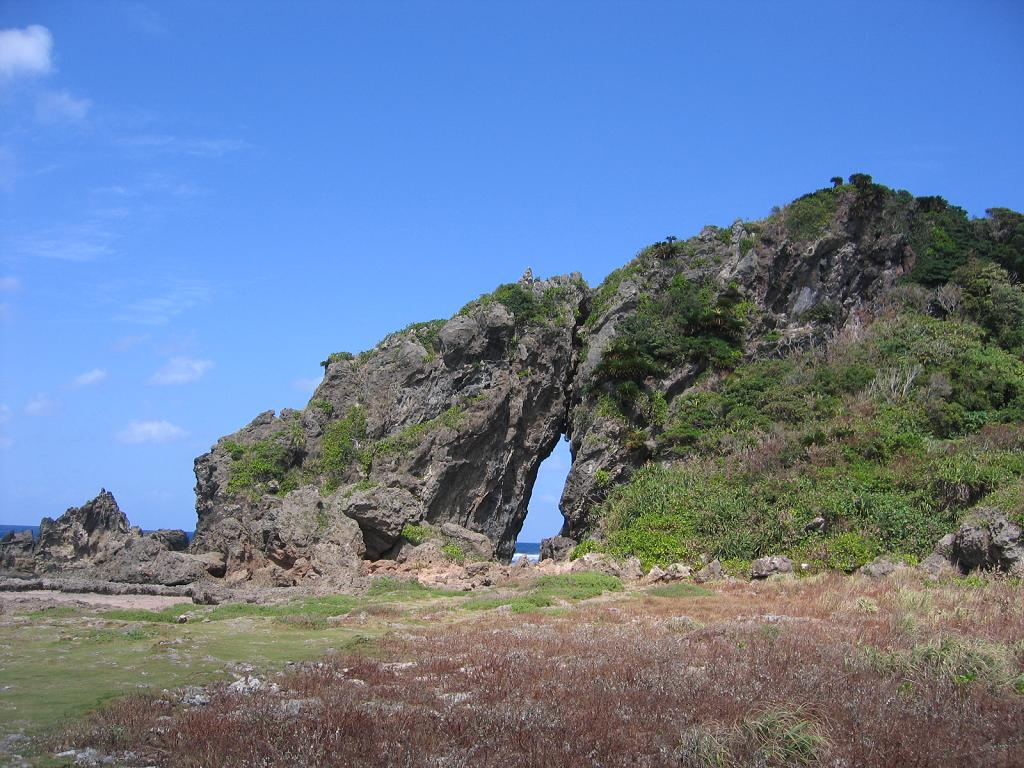 Mīfugā, a coastal rock in Kumejima Town, Okinawa Prefecture, Japan.